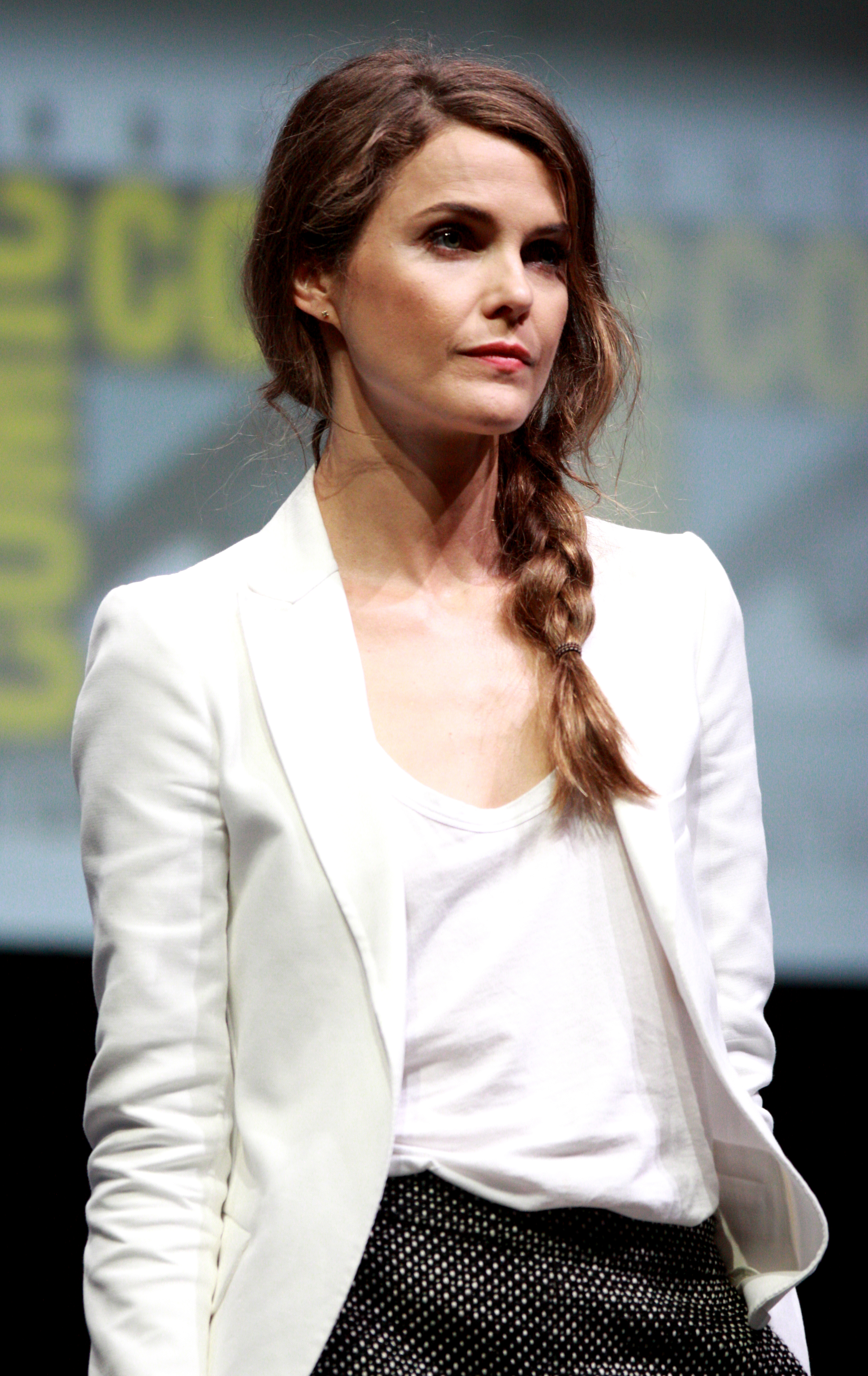 Keri Russell at the 2013 San Diego Comic Con International in San Diego, California.